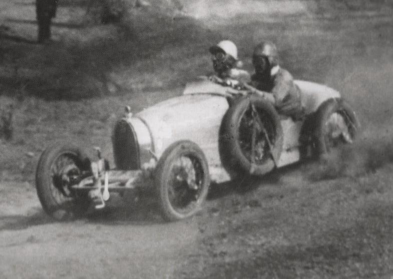 The Bugatti Type 37A of Bill Thompson contesting the 1930 Australian Grand Prix at Phillip Island. Thompson won the race, the first of his three AGP victories.